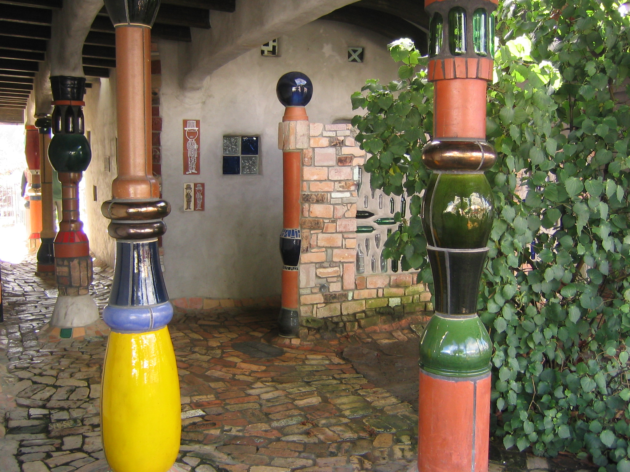 These toilets were designed in 1997 by Austrian born Friedensreich Hundertwasser in the Gaudi style. As you do.